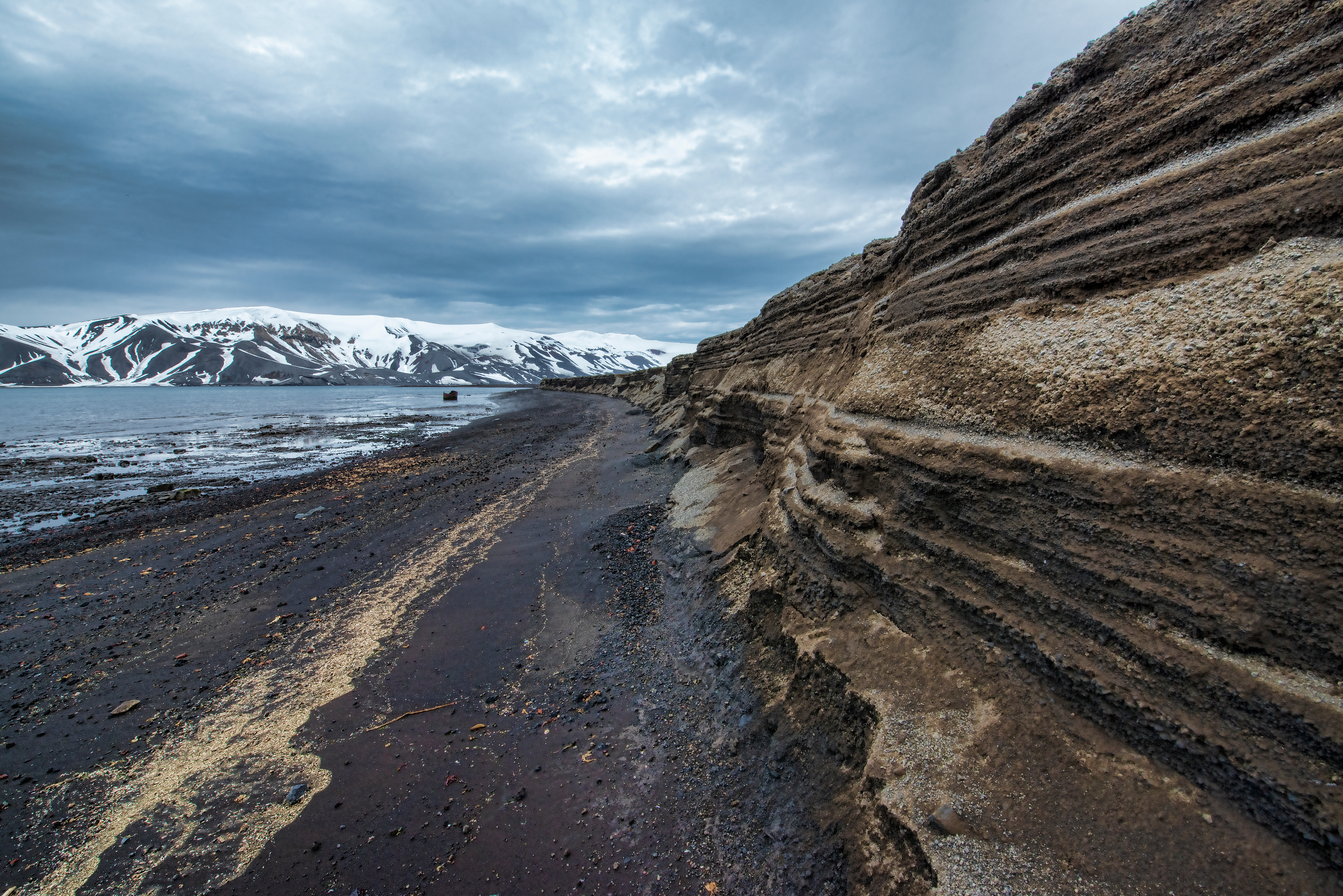 Layers of phreatomagmatic tephra on Deception Island, Antarctica. The tephra is part of the Pendulum Cove Formation, which was formed by phreatomagmatic volcanic eruptions, mostly within the past 250 years.